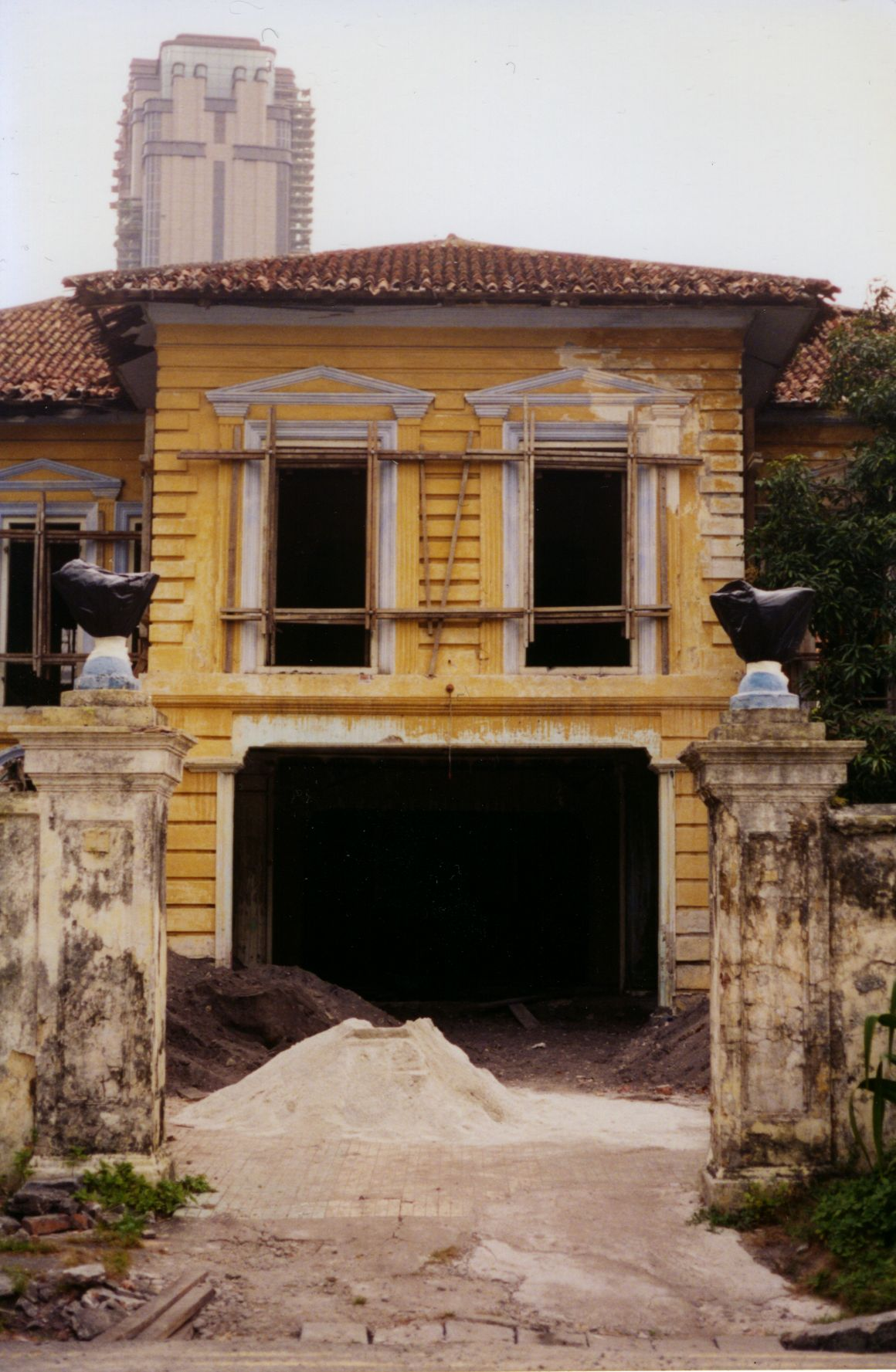 Gedung Kuning at 73 Sultan Gate, Singapore, under restoration.